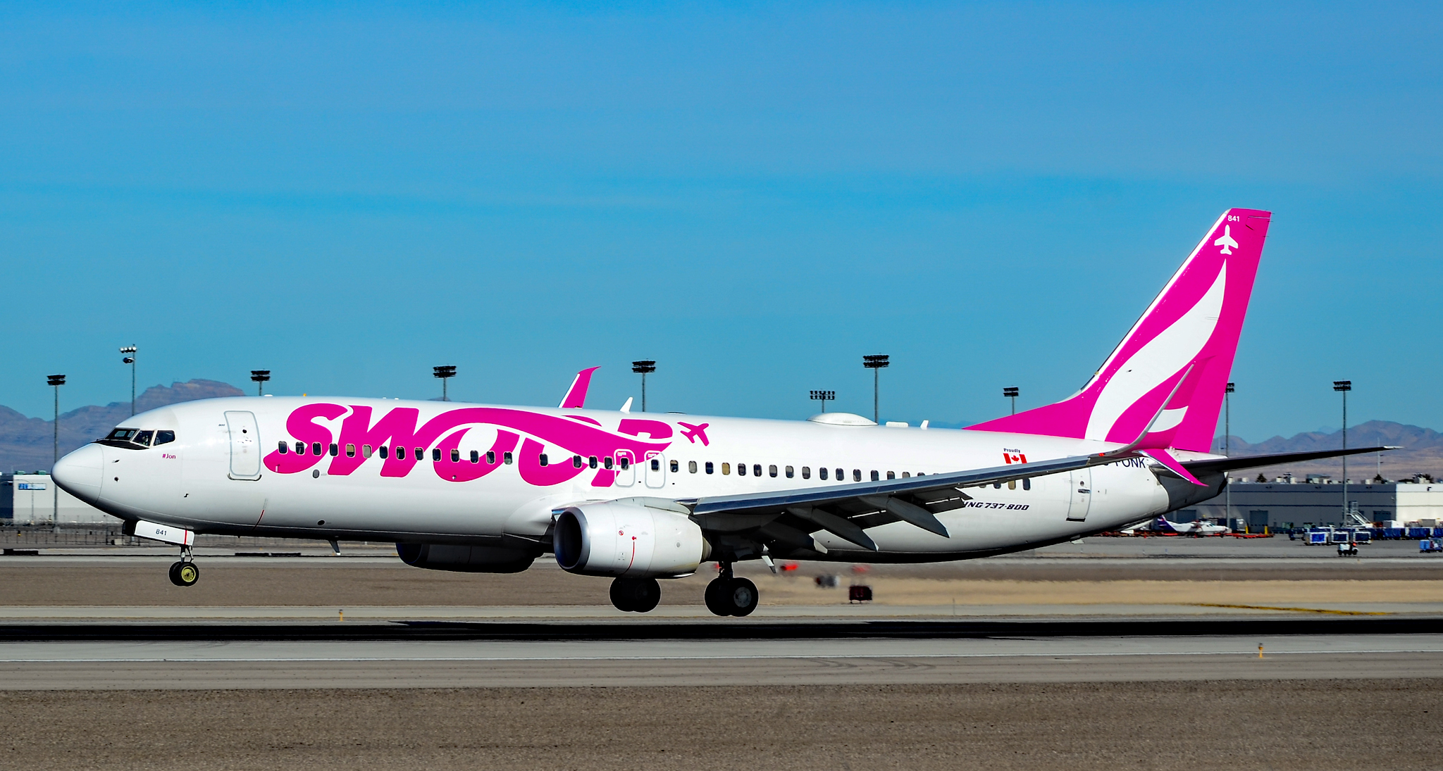 Las Vegas - McCarran International (LAS / KLAS) USA - Nevada, January 11, 2019 Photo: TDelCoro